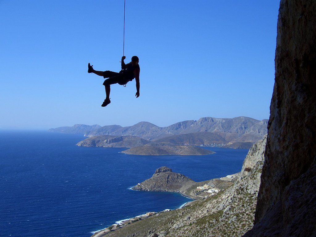 Author: David Bolius Description: Lowering from Daniboy (Kalymnos, Greece) Reference